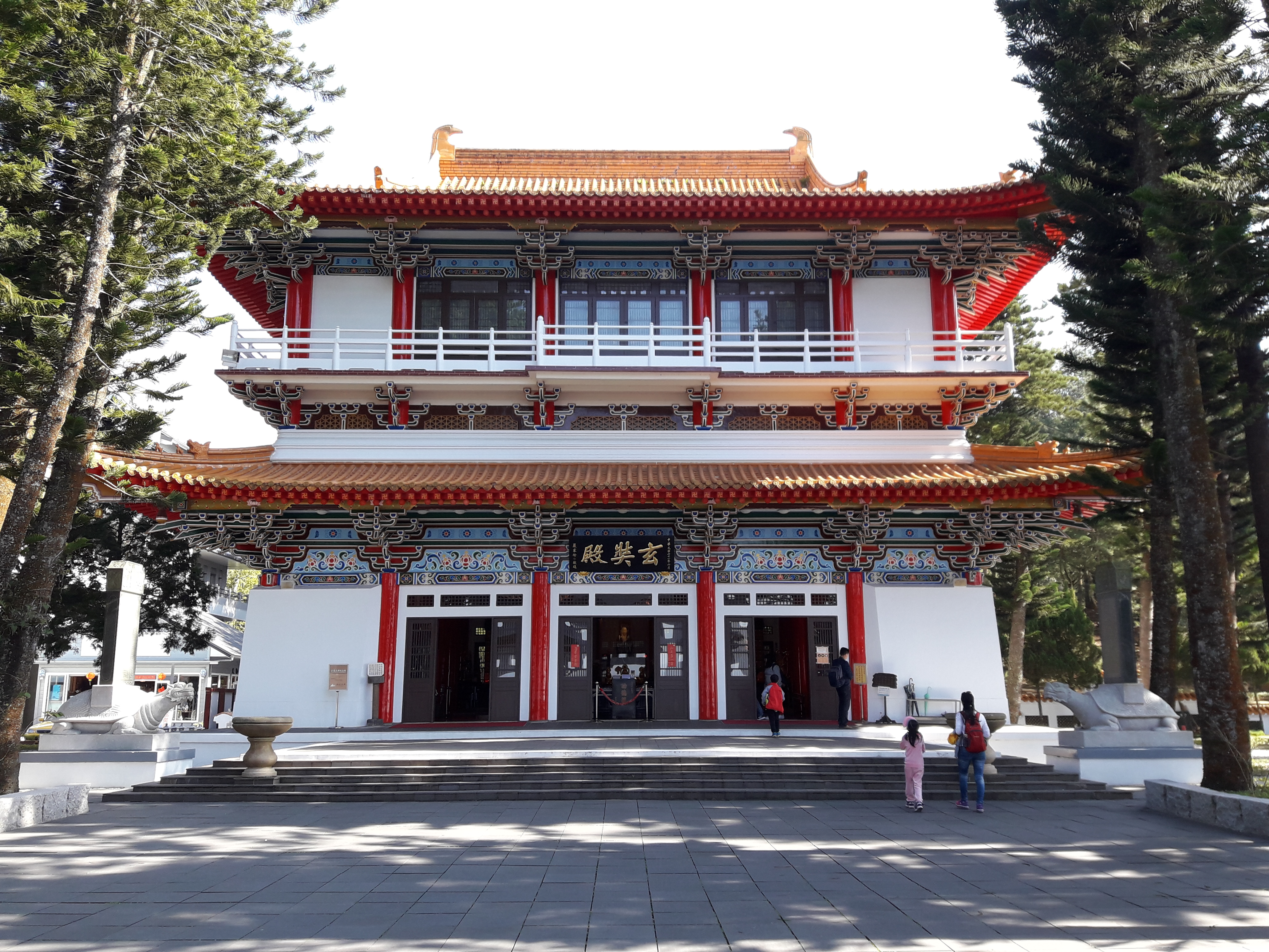 Xuanzang Hall, the main building of Xuanzang Temple.